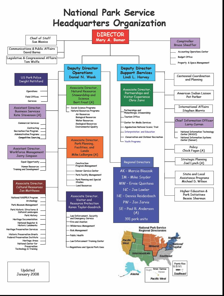 Organizational Chart of the National Park Service